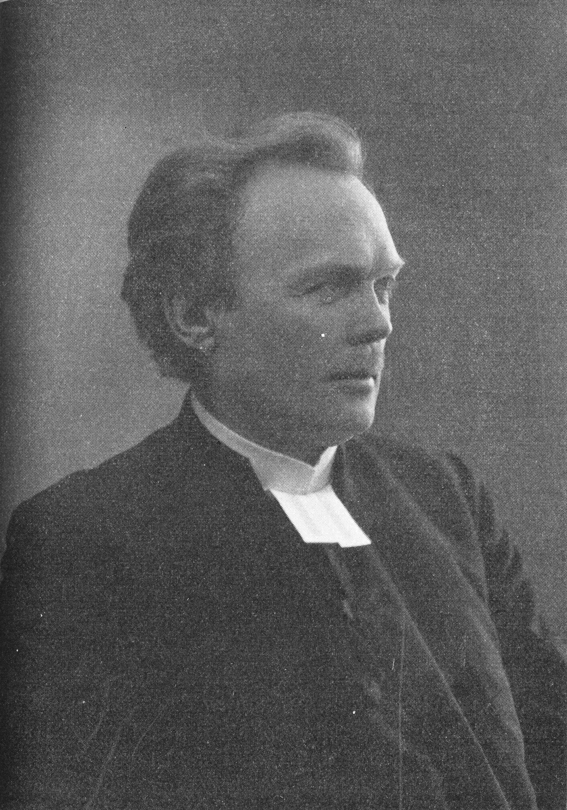 Swedish Arch Bishop Nathan Söderblom 1914.